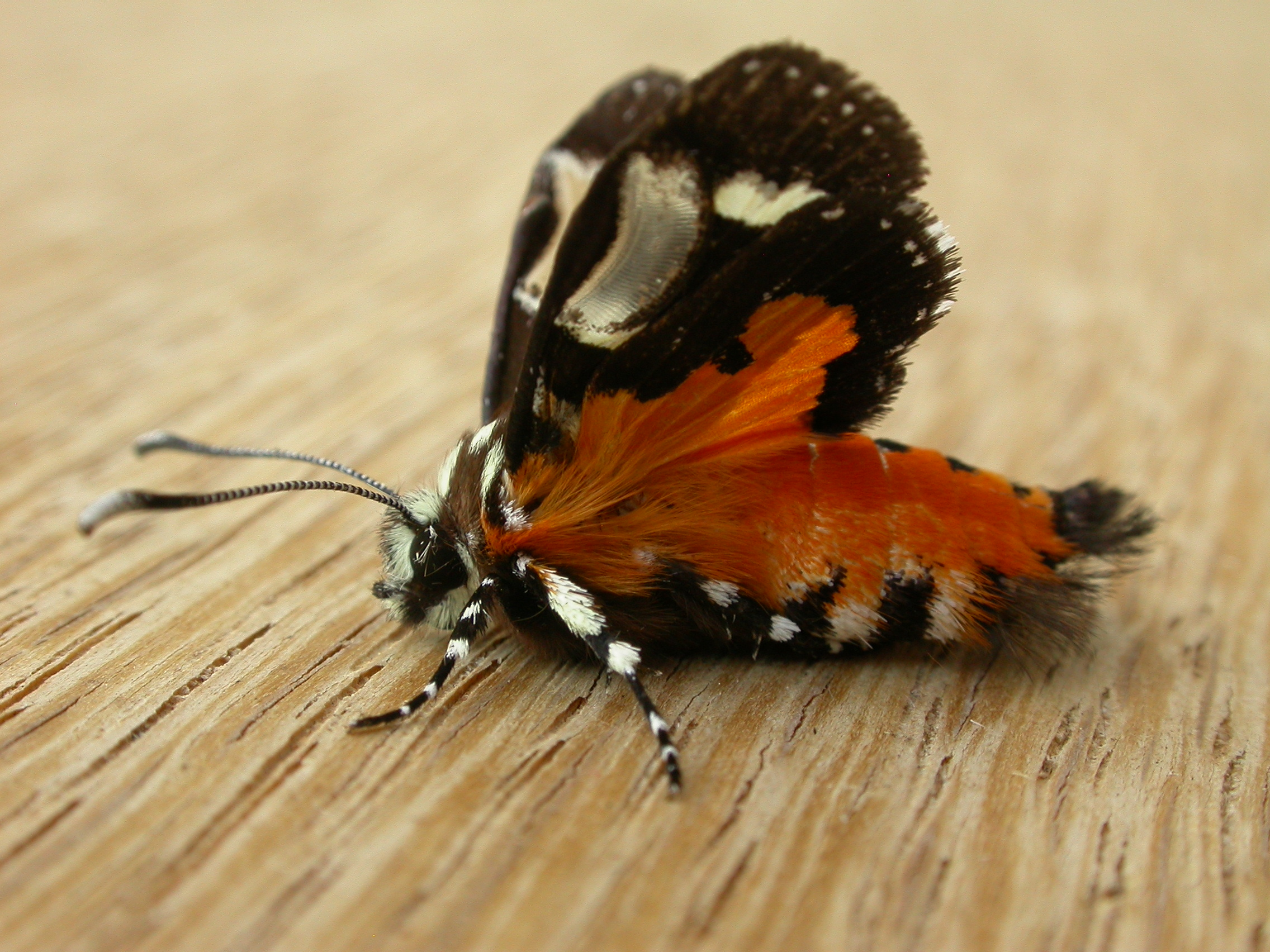 Hecatesia fenestrata Boisduval, 1828, male, to MV light, Aranda, ACT, 9.00 p.m., 21 November 2010 This is a male Whistling Moth, able to produce a whistling sound with the knobs on the costa of the forewing and the ribbed, scale-free areas just behind the knobs. According to Common, Moths of Australia, it is usually the females (which lack these characters) which come to light.